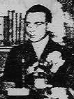 Eugen Herrigel during Seminar held in Ohazama Shuei's family appartment, in Heidelberg (1922).